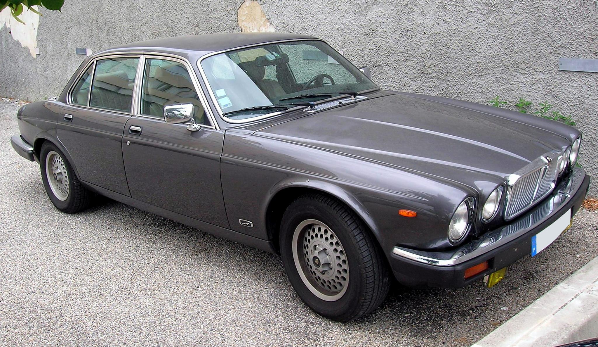 Jaguar Sovereign 4.2